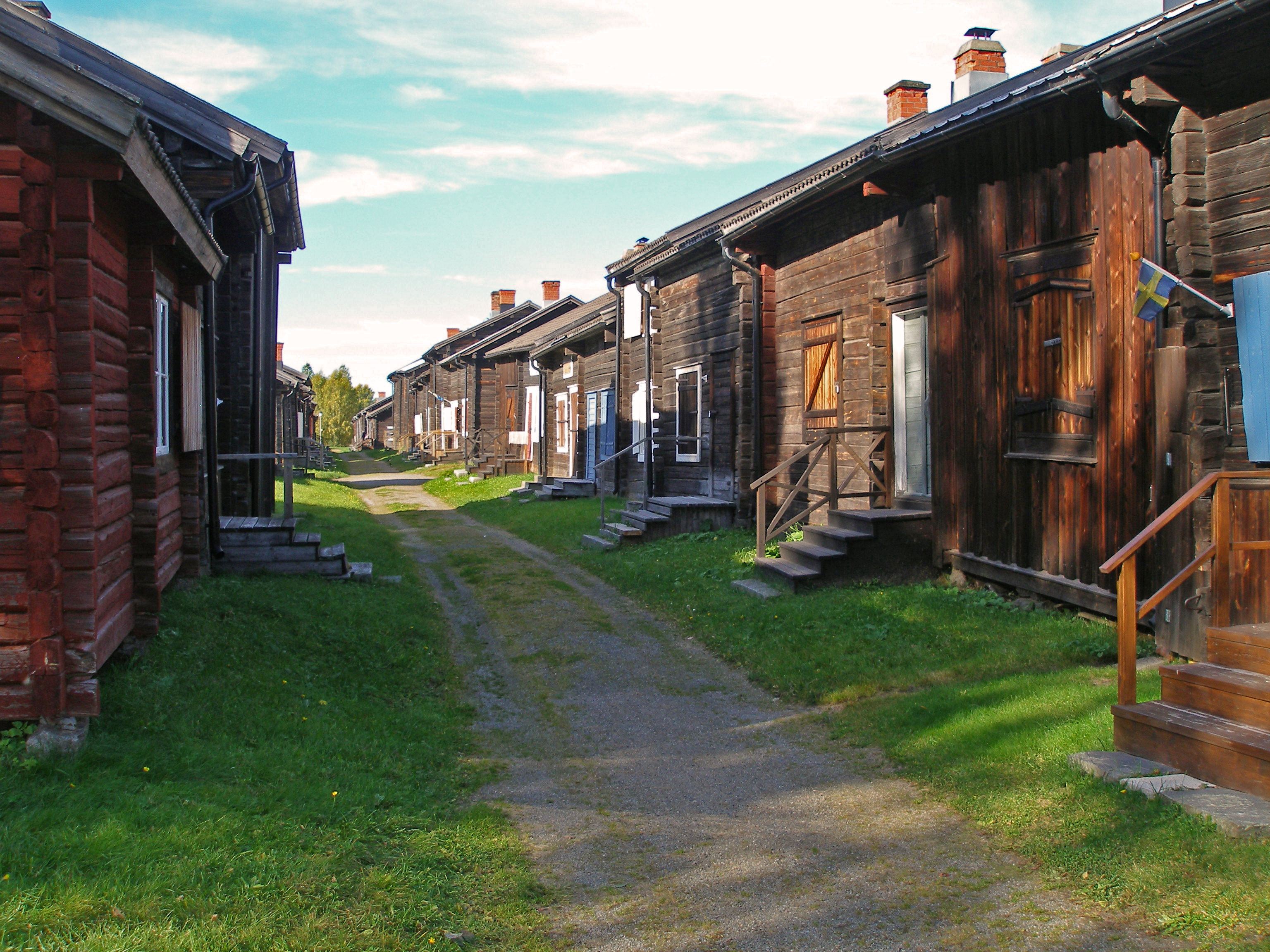 Bonnstan, church cottages in Skellefteå.